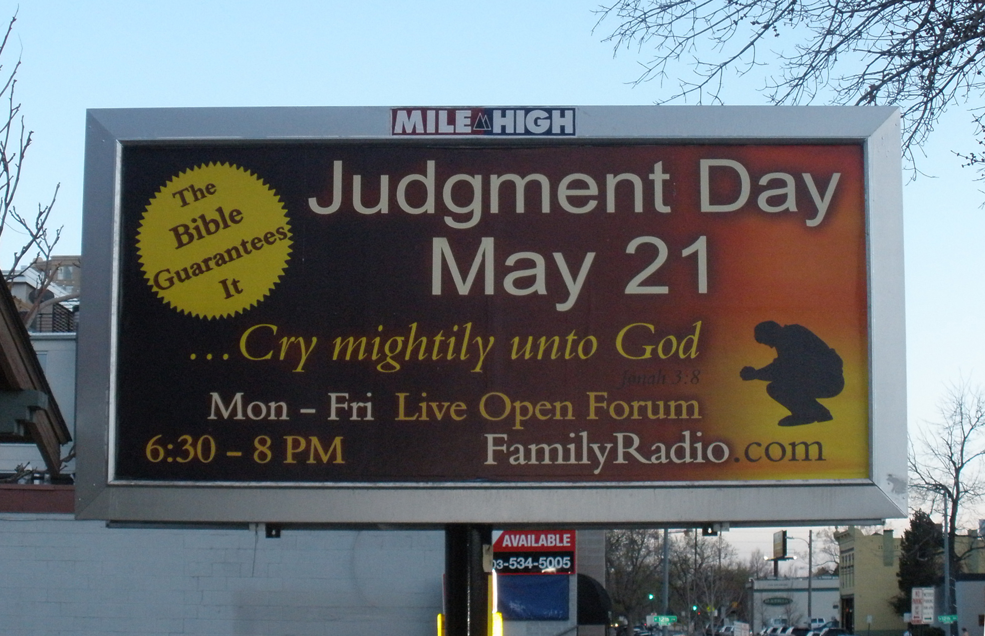 Sign for Family Radio's prediction of the end of the world, predicted for 21 May 2011, located at 1228 Delaware Street between 12th and 13th Avenues in Denver.